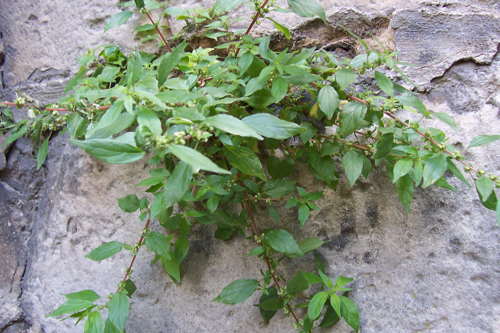 Parietaria judaica growing in a wall in Senlis, Oise, France.